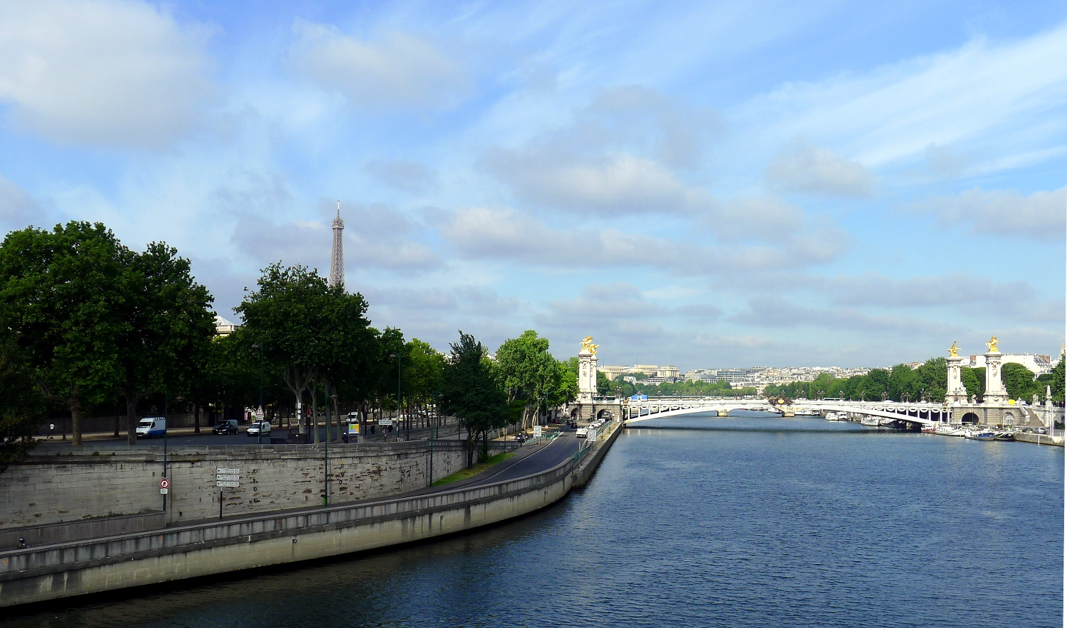 Pont Alexandre III, quai d'Orsay, port des Invalides - Paris